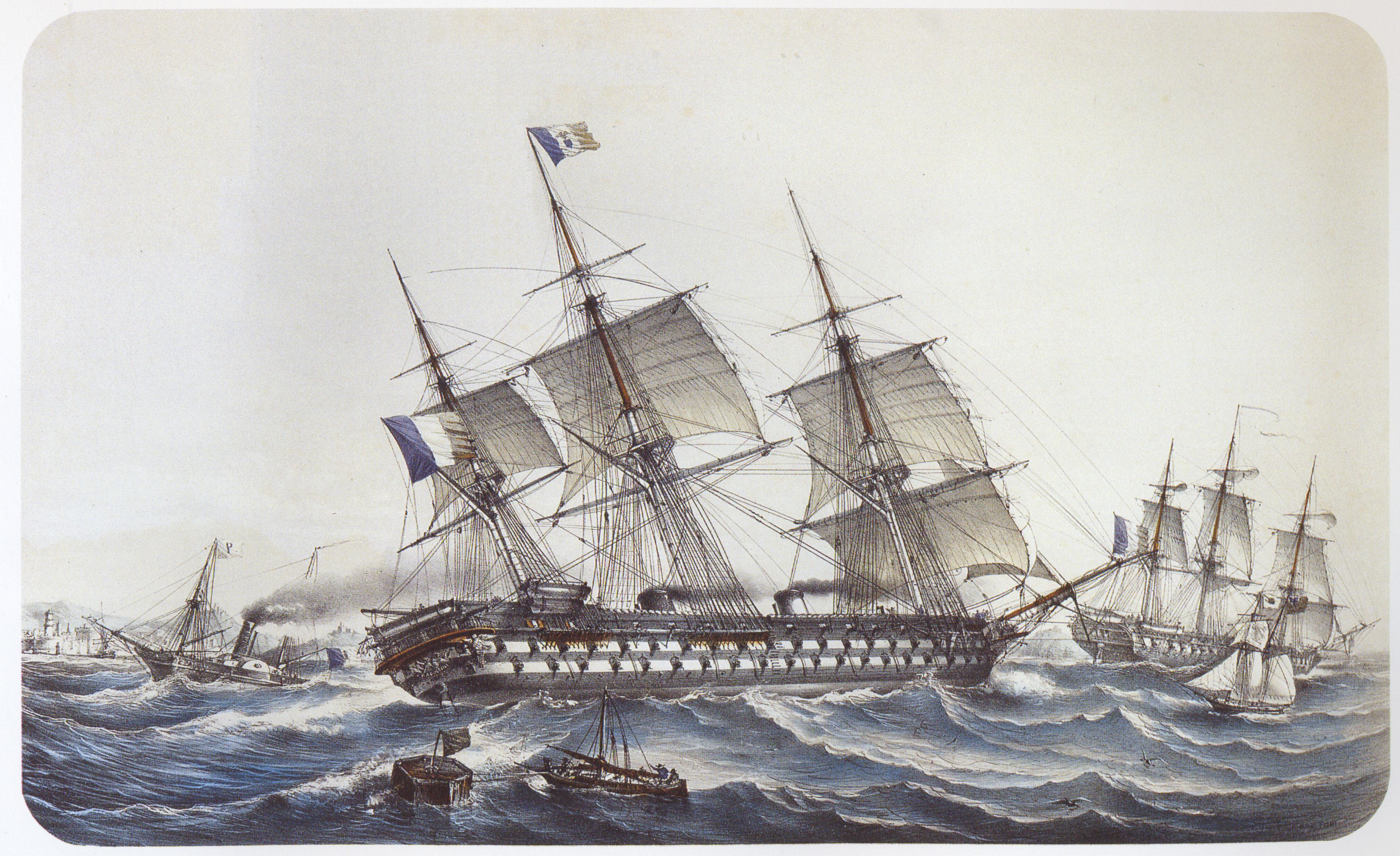 The Napoléon